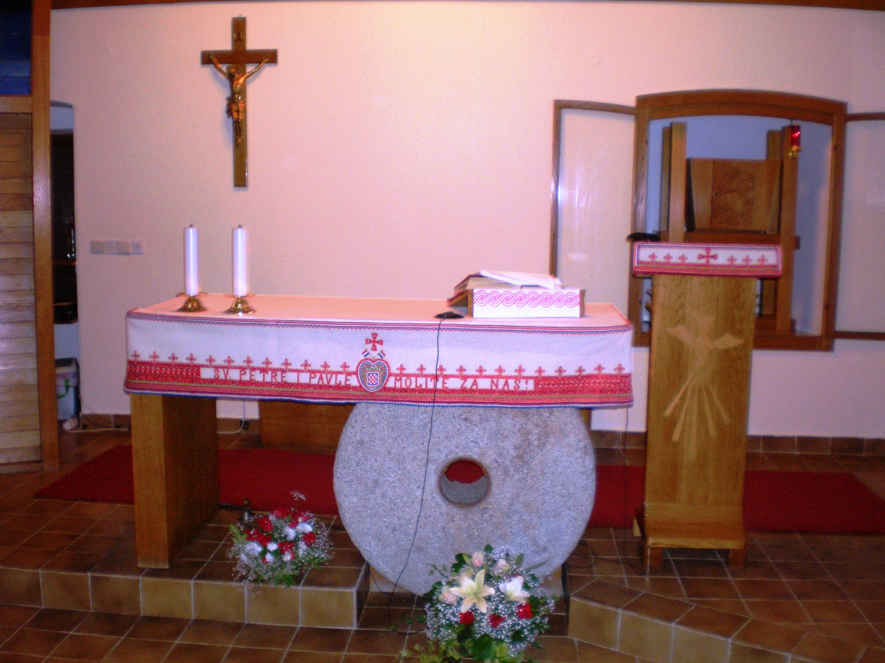 Main altar in St. Peter and Paul's Catholic Church, Zagreb-Bešići